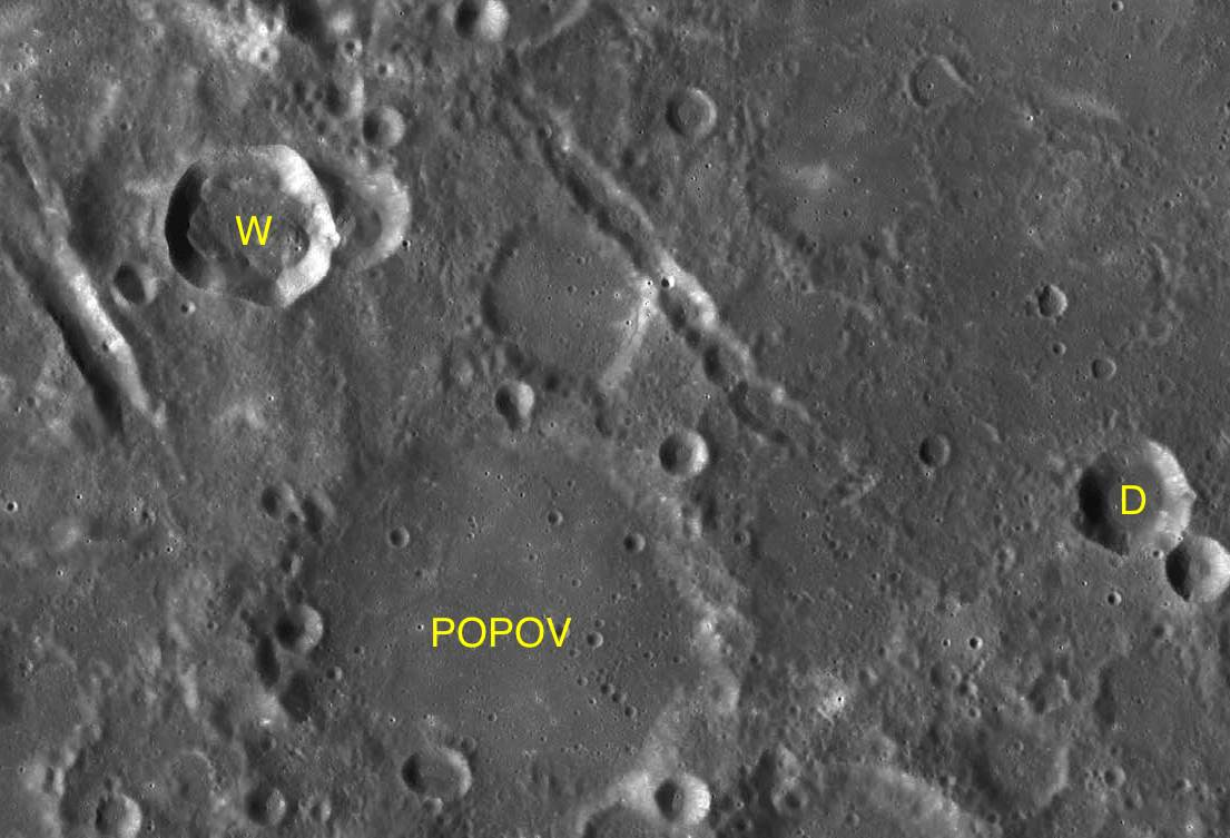 Part of the chart LAC-46 used for the presentation